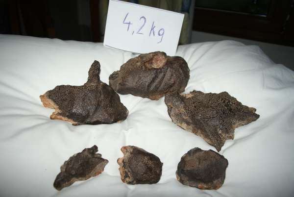 some pieces of the Gebel Kamil iron meteorite